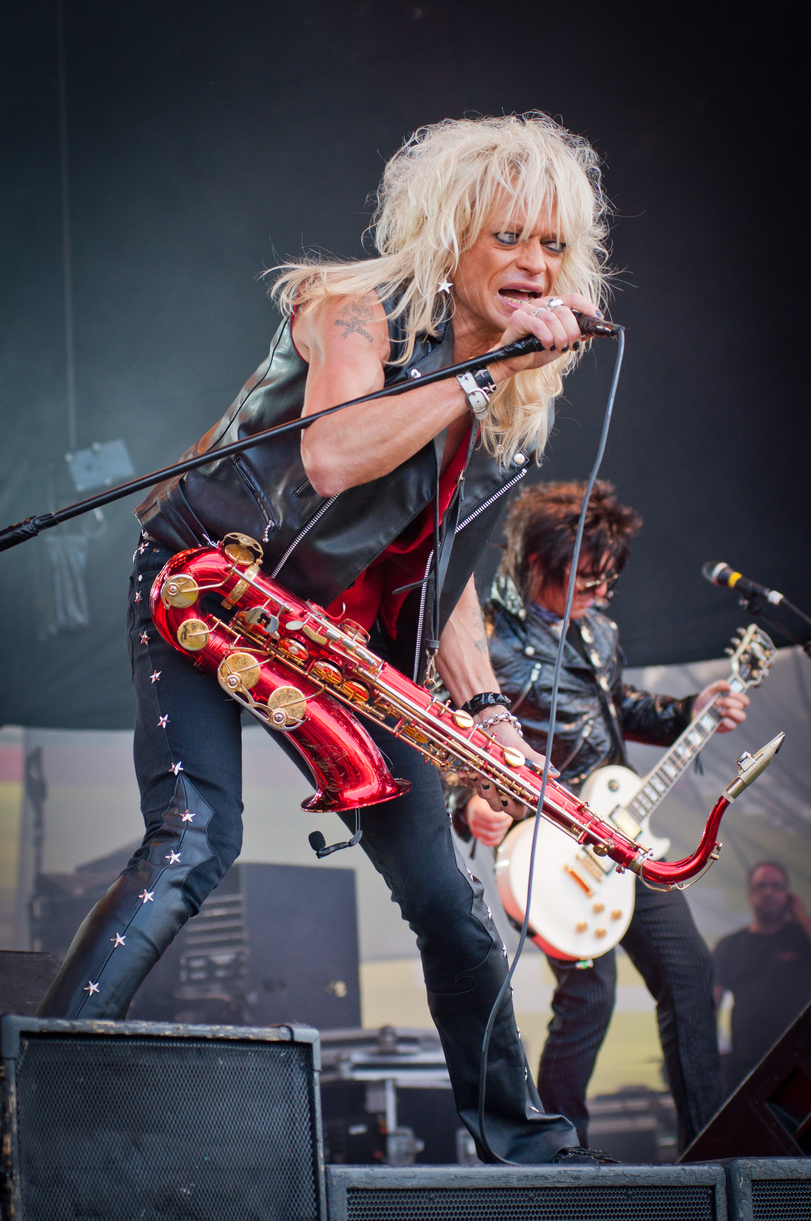 Finnish vocalist and saxophonist Michael Monroe performing at the 2011 Ilosaarirock festival in Joensuu, Finland.